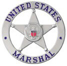 United States Marshals Service badge